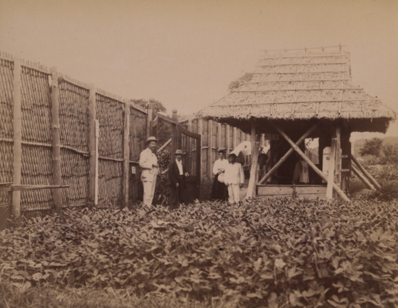 Customs Outpost on the present Boundary. Location: Hong Kong Date: 1898 Our Catalogue Reference: Part of CO 1069/453. This image is part of the Colonial Office photographic collection held at The National Archives. Feel free to share it within the spirit of the Commons. Please use the comments section below the pictures to share any information you have about the people, places or events shown. We have attempted to provide place information for the images automatically but our software may not have found the correct location. For high quality reproductions of any item from our collection please contact our image library